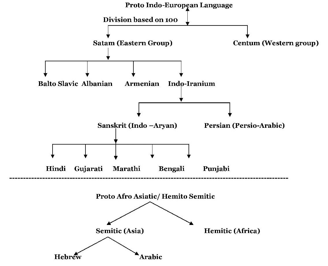 language origin and its hierarchy